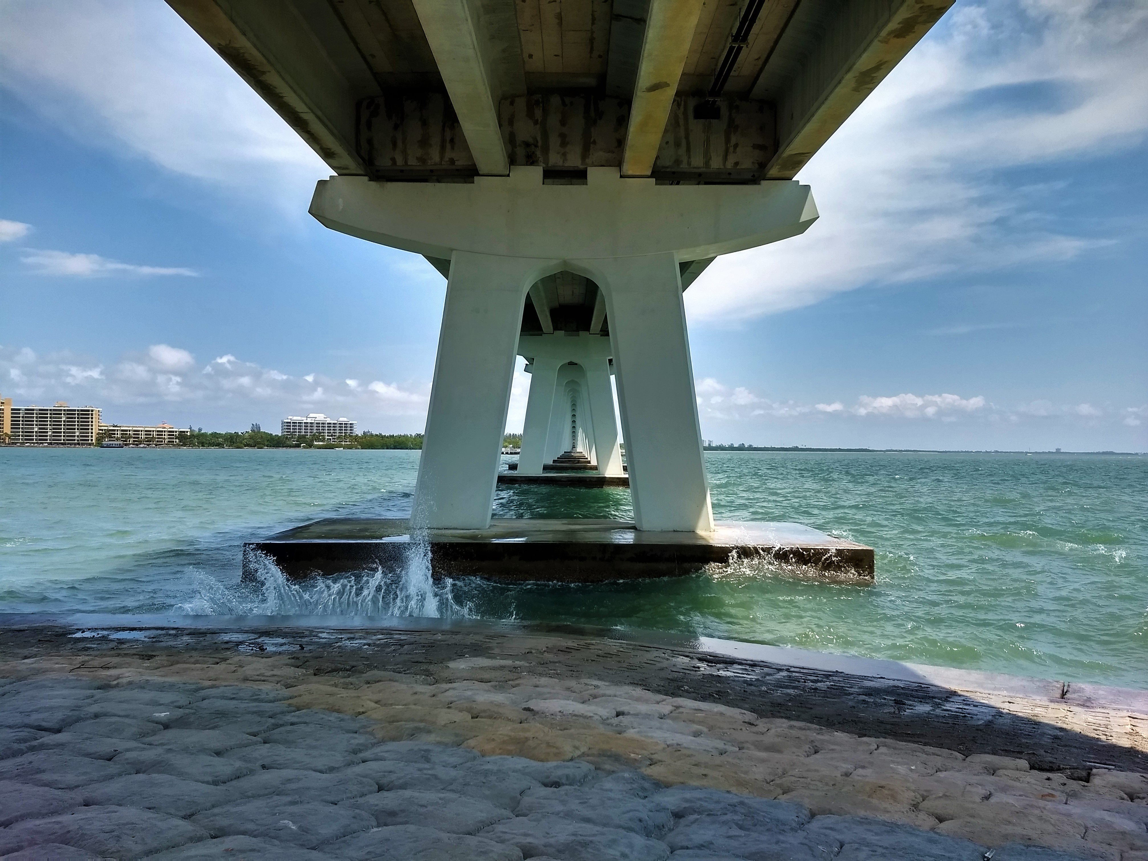 Underside of "Bridge A" of the Sanibel Causeway between Fort Meyers and Sanibel Island in Lee County, Florida